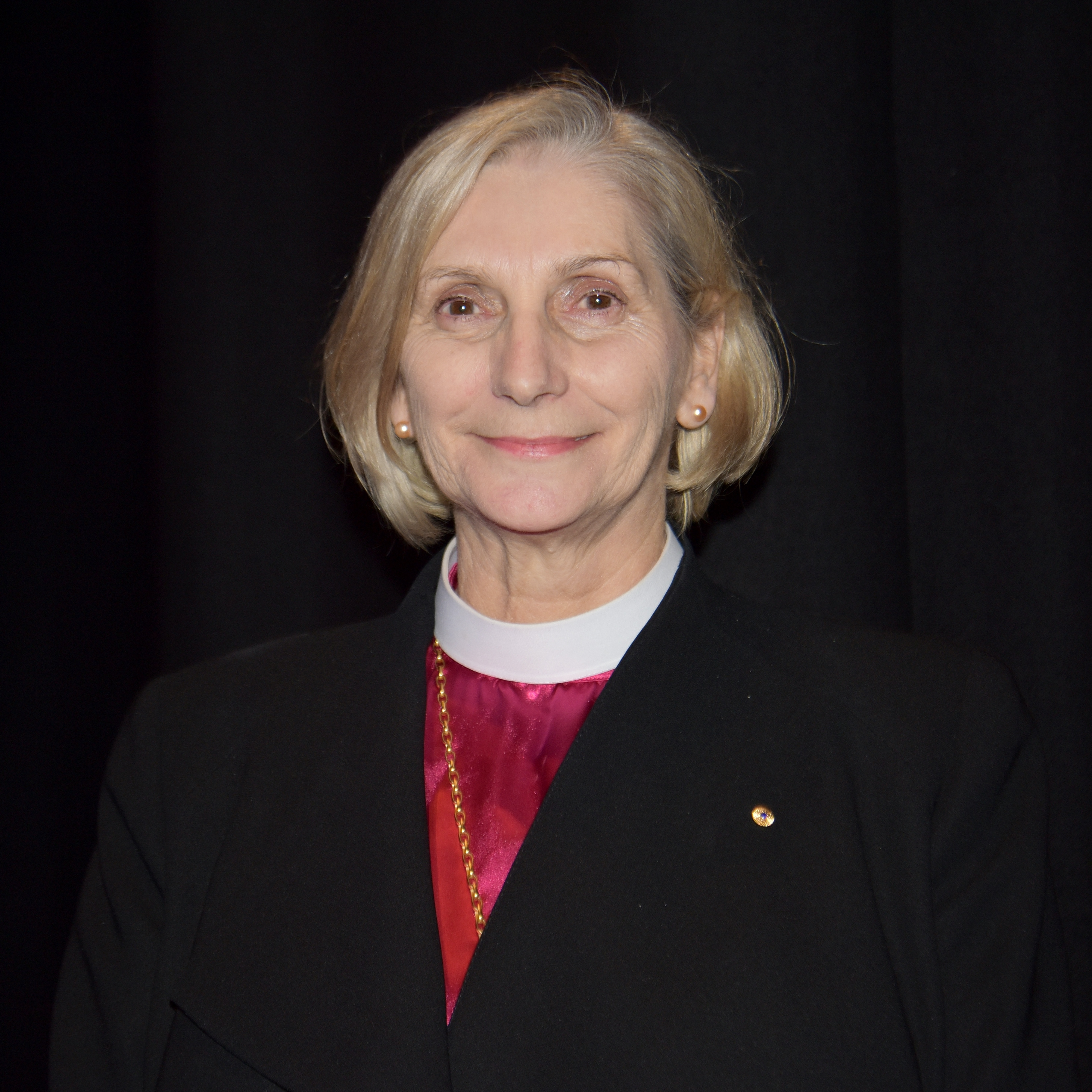 Portrait of Kay Goldsworthy, Anglican Archbishop of Perth, at an Anglican Schools Commission dinner at the Hyatt Regency Hotel, Perth